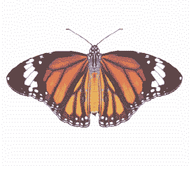 Danaus genutia digital picture made by self (L. Shyamal)